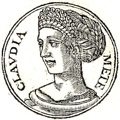 Clodia Metelli was the third daughter of the patrician Appius Claudius Pulcher and Caecilia Metella Balearica.